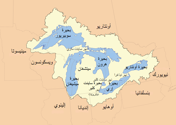 خريطة حوض البحيرات العظمى في أمريكا الشمالية Map of Great Lakes Basin